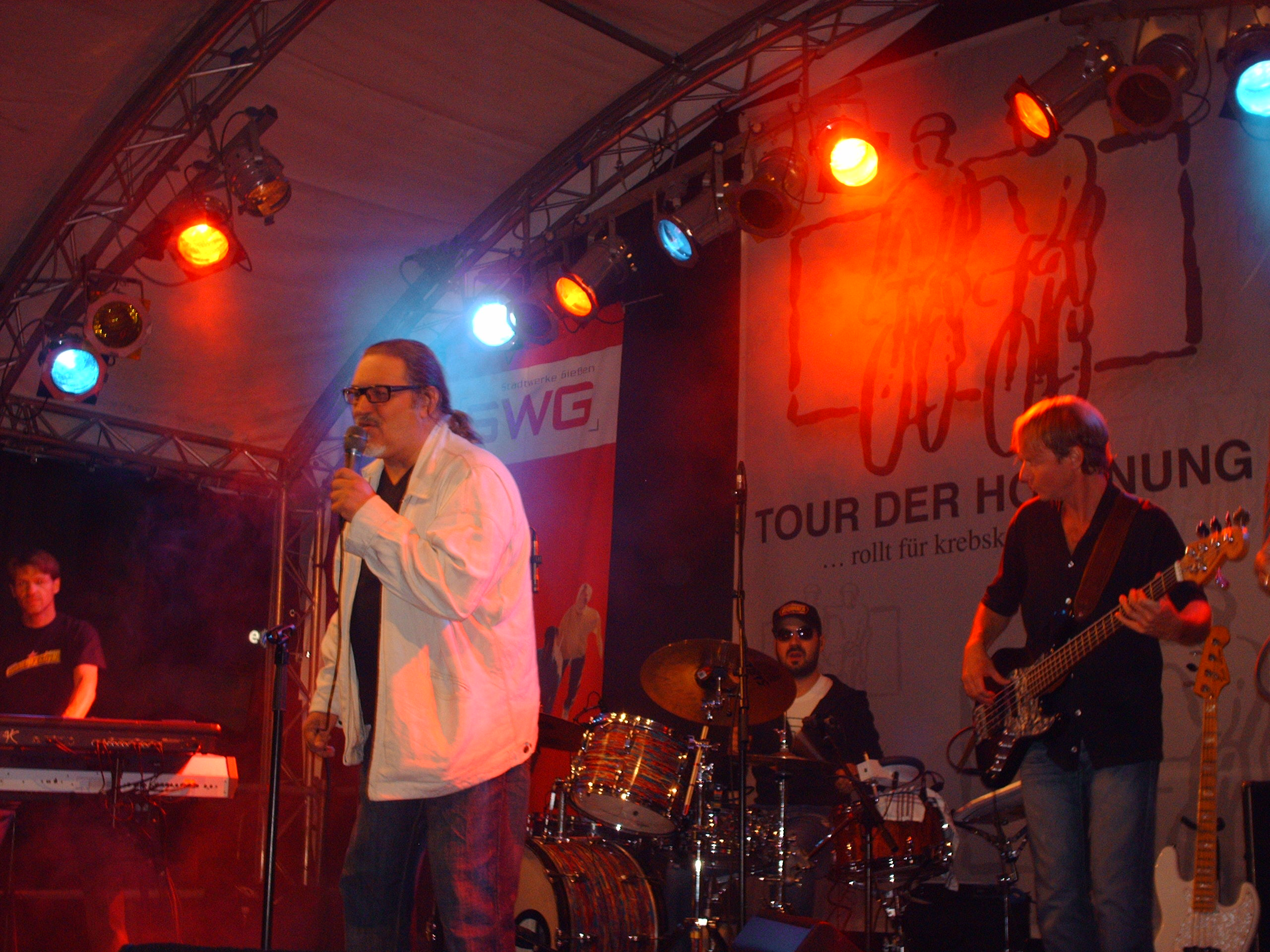 Edo Zanki and band, Gießen, Germany check usage